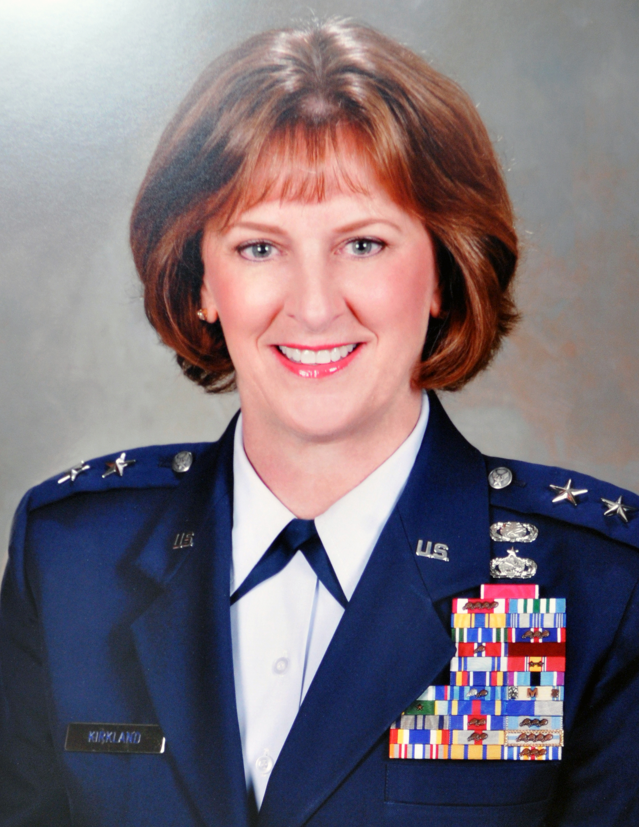 Cynthia Kirkland